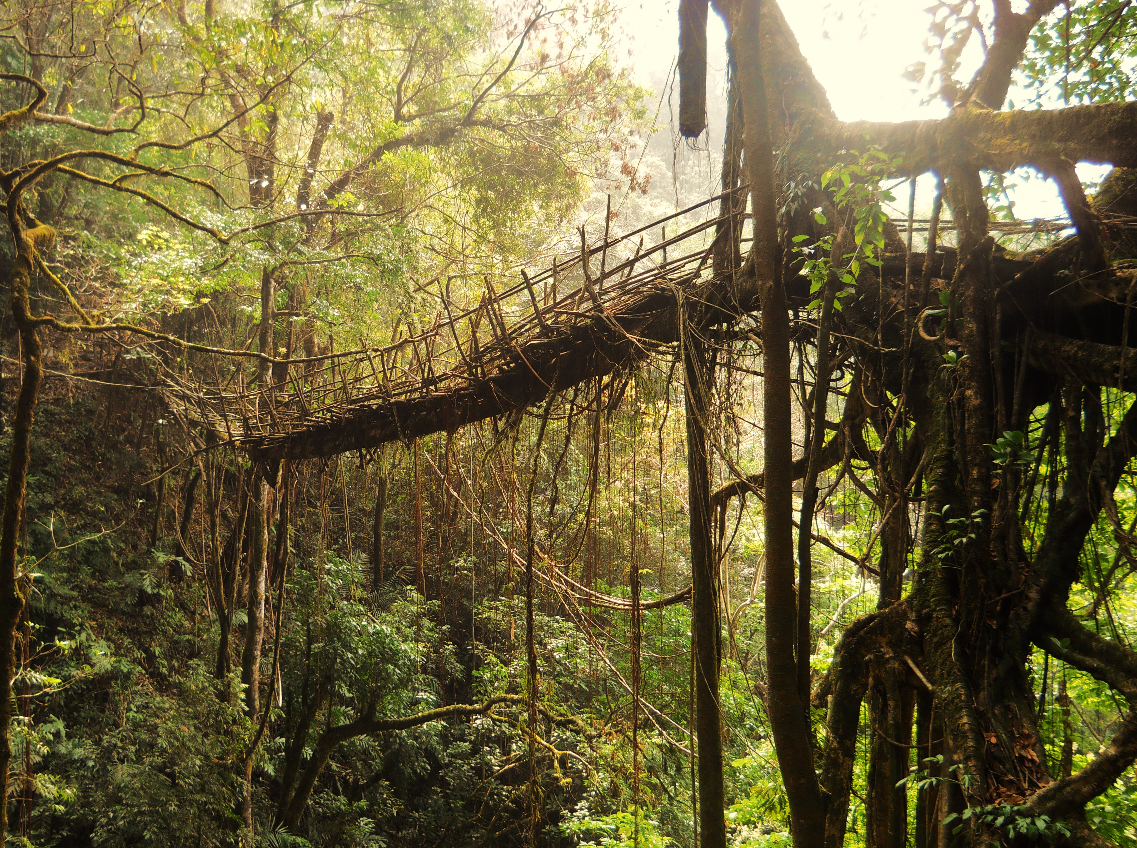 Rangthylliang 50+ meter living root bridge